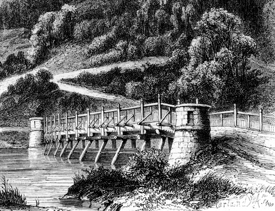 The Pile bridge near Marienburg Castle, built 1859